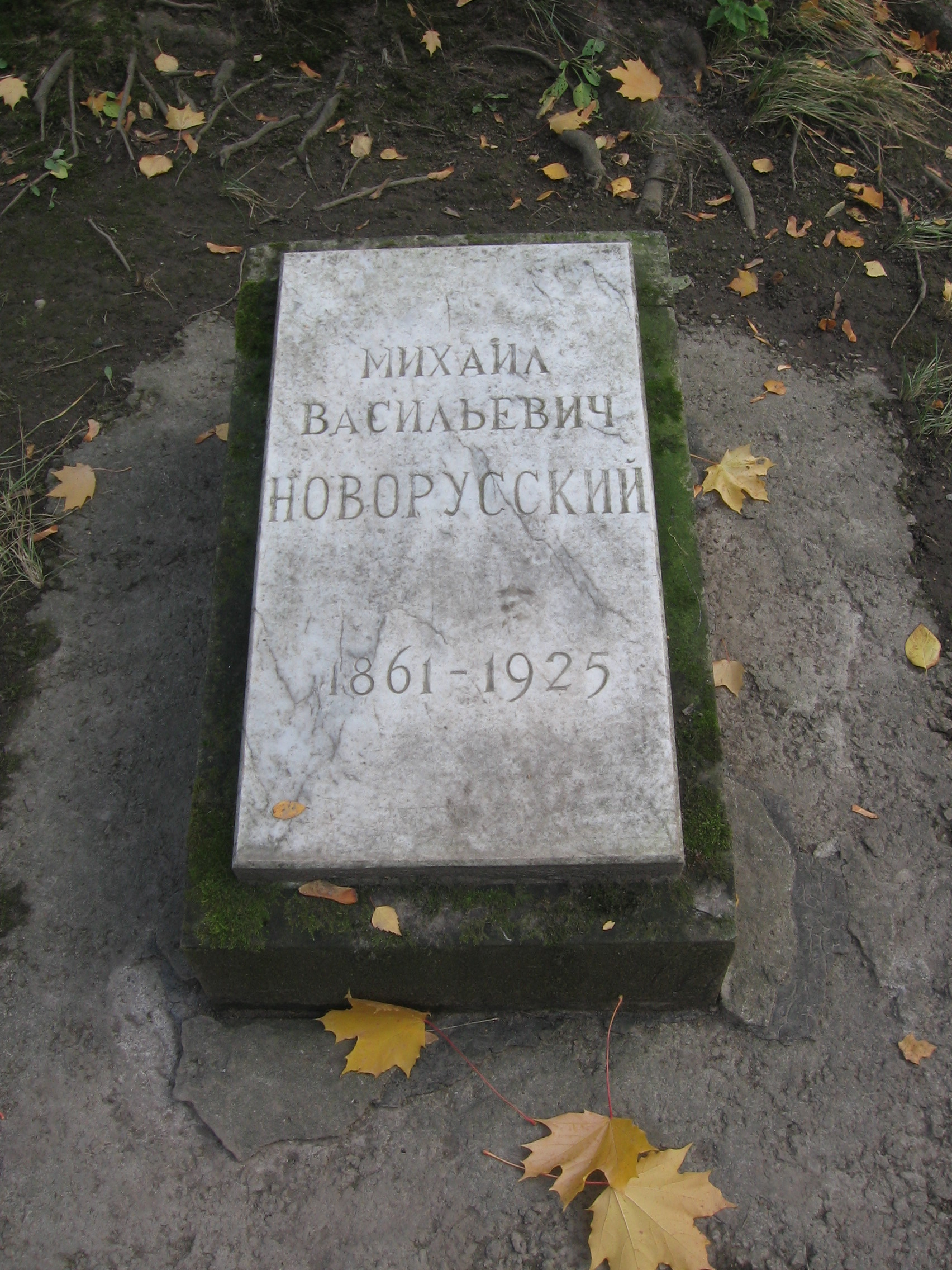 Grave of Mikhail Novorussky